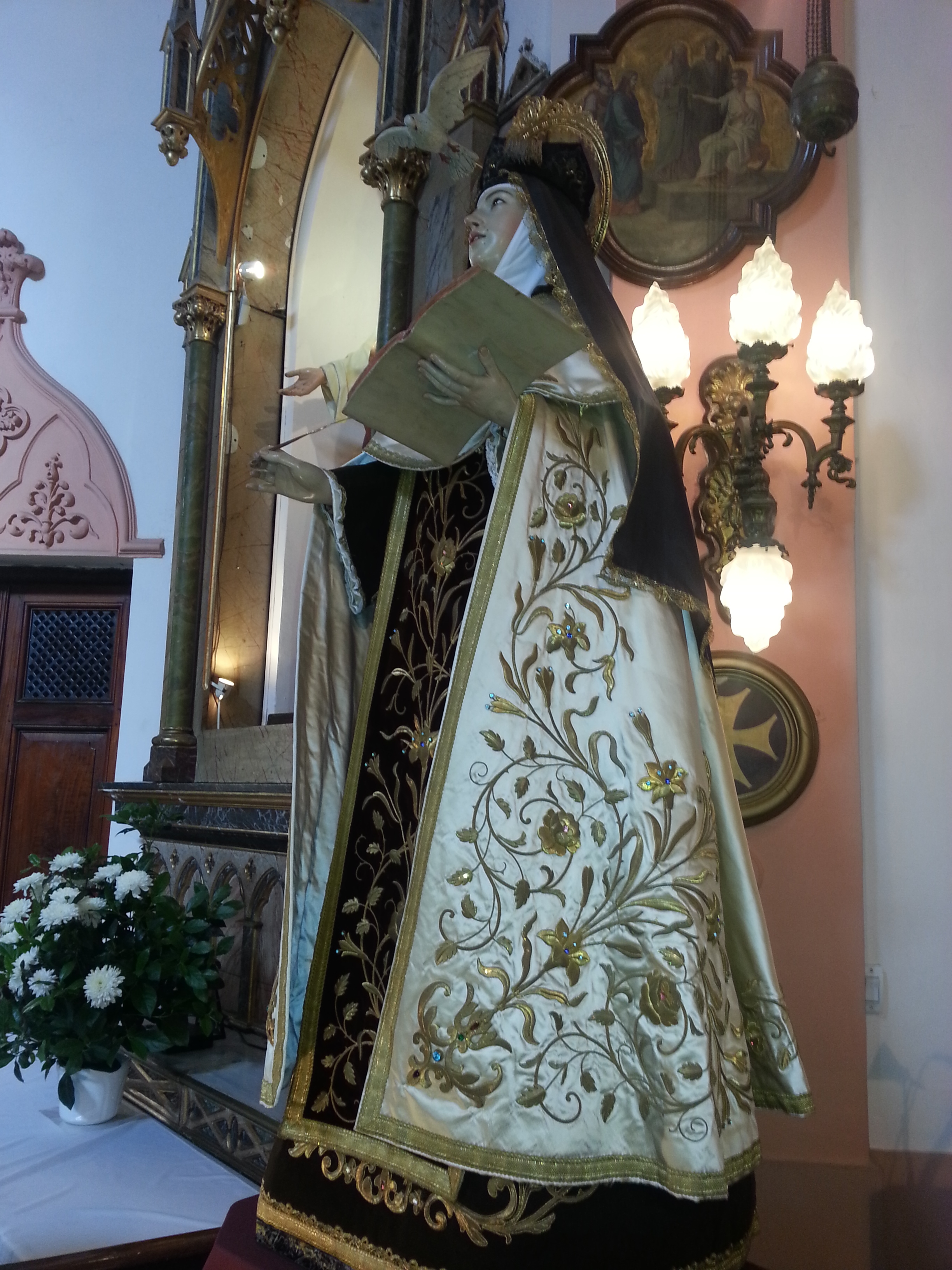 Image of Teresa of Ávila. Monasterio Santa Teresa de Jesús (Buenos Aires).